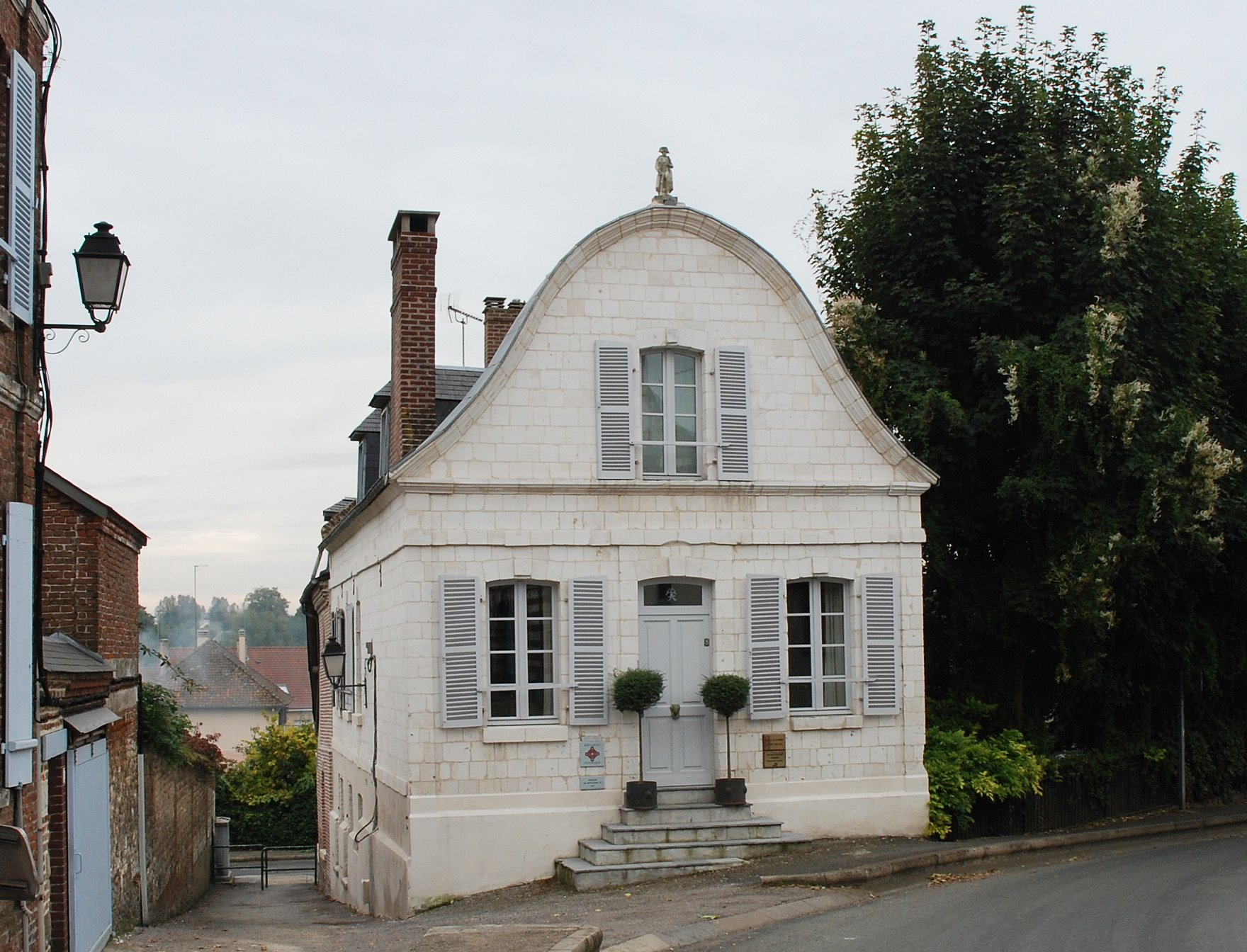 the "house of Napoleon" in Saint-Riquier, Picardy, France